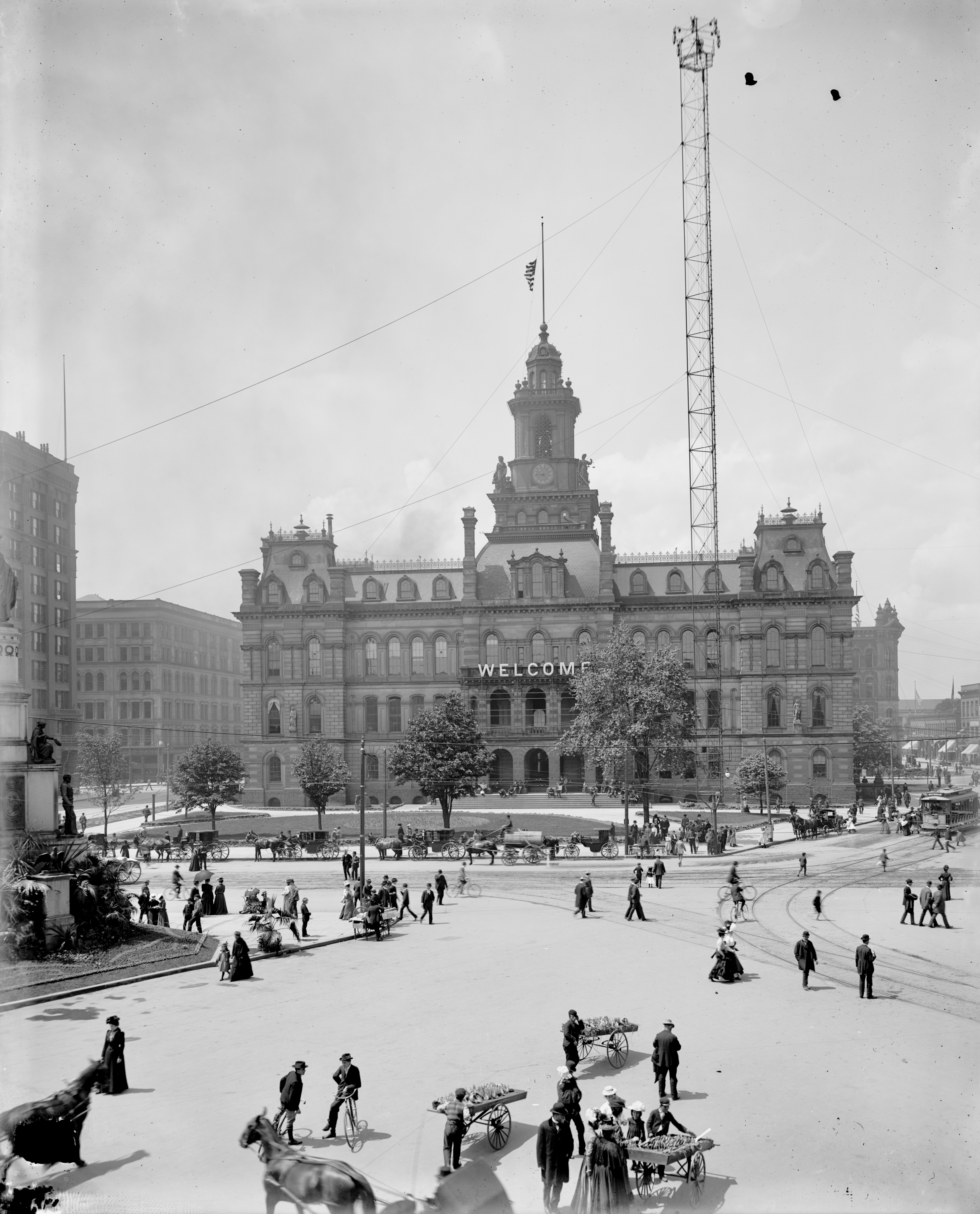 Downtown Detroit, Michigan (1900s) Showing Campus Martius Park, Detroit City Hall, and a Moonlight Tower.